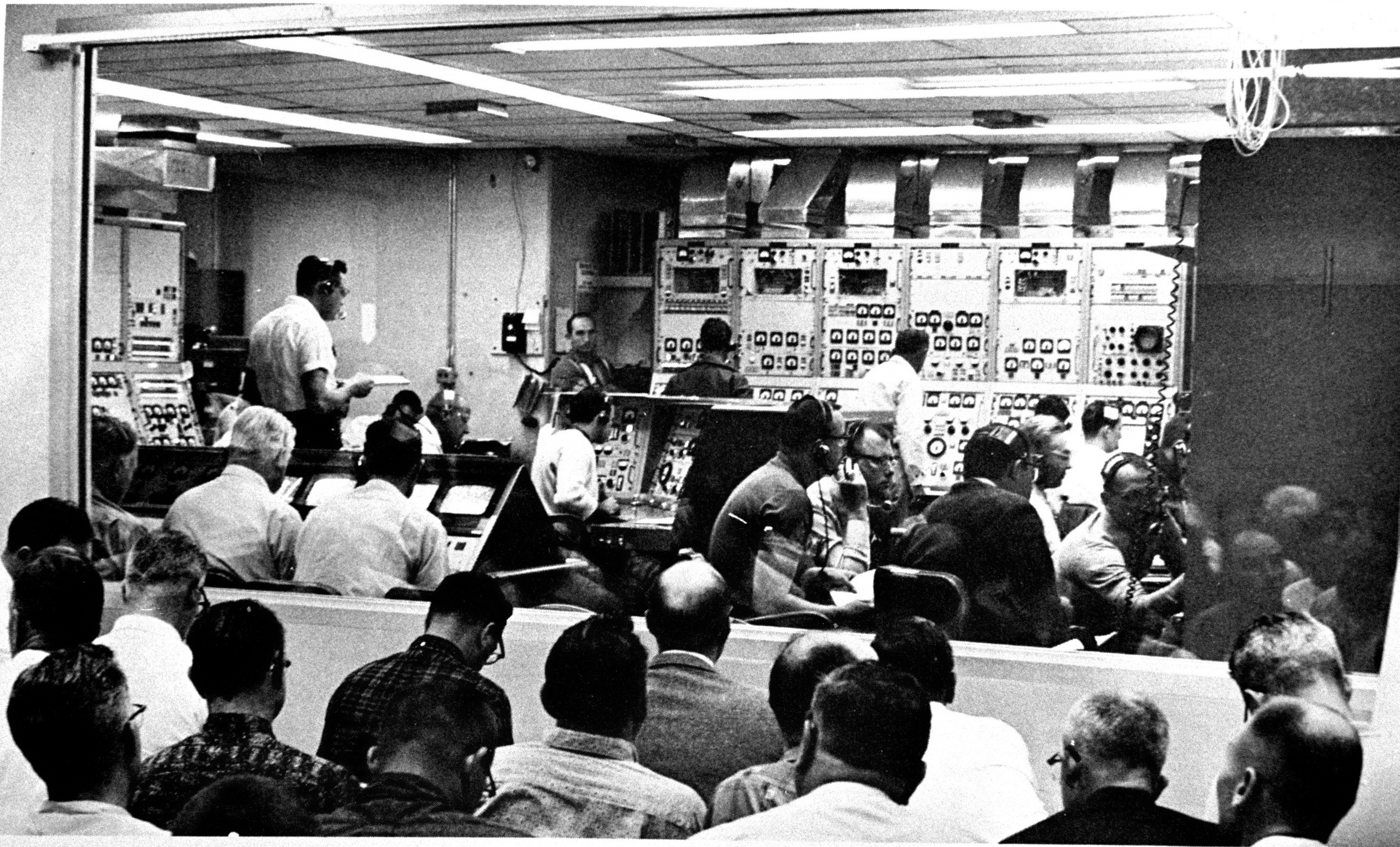 Engineers and technicians monitor a NERVA engine test.